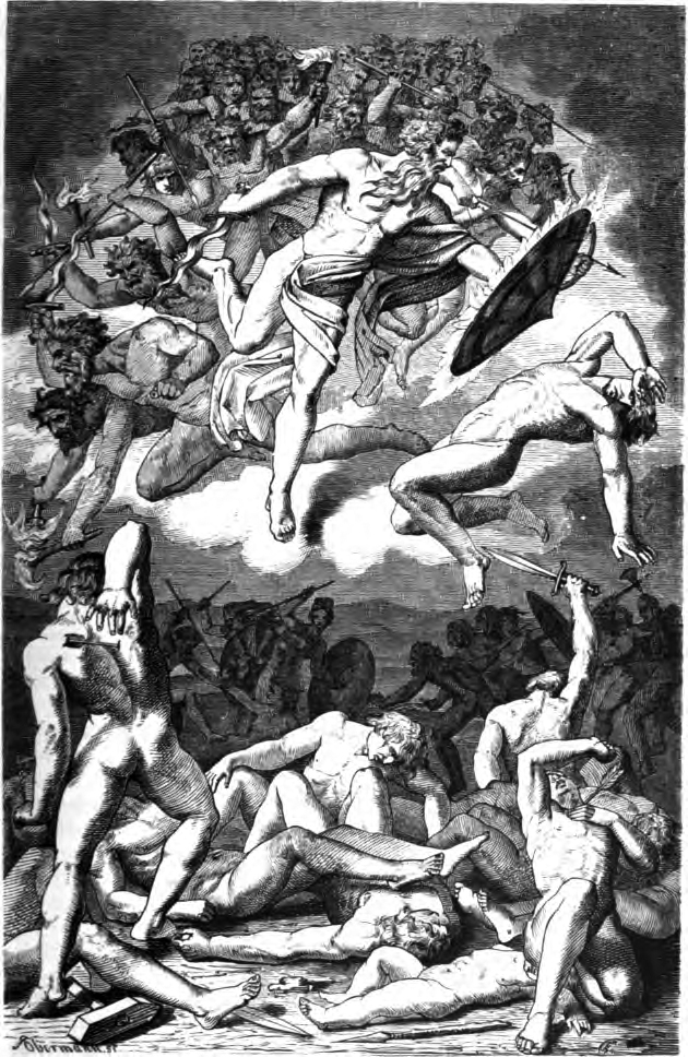 Captioned as "Der Asen Untergang". "The downfall of the Æsir". The heavens split and the "Sons of Múspell" ride forth upon the Æsir at Ragnarök as described in Gylfaginning chapter 51.